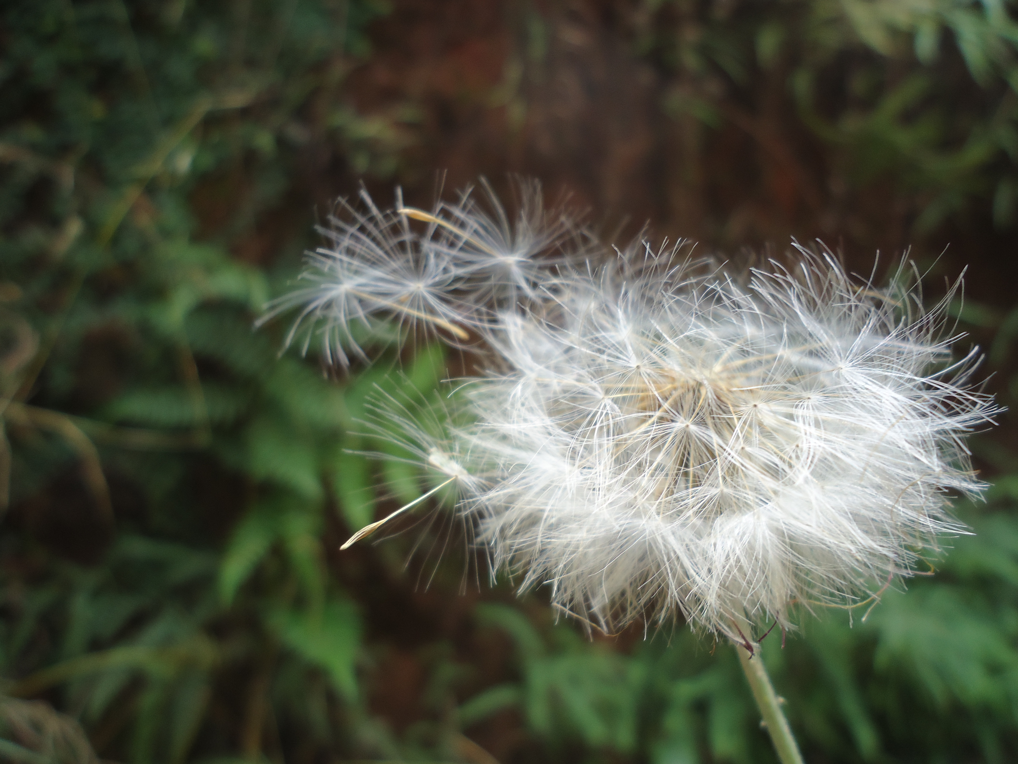 Ordinary Dandelion